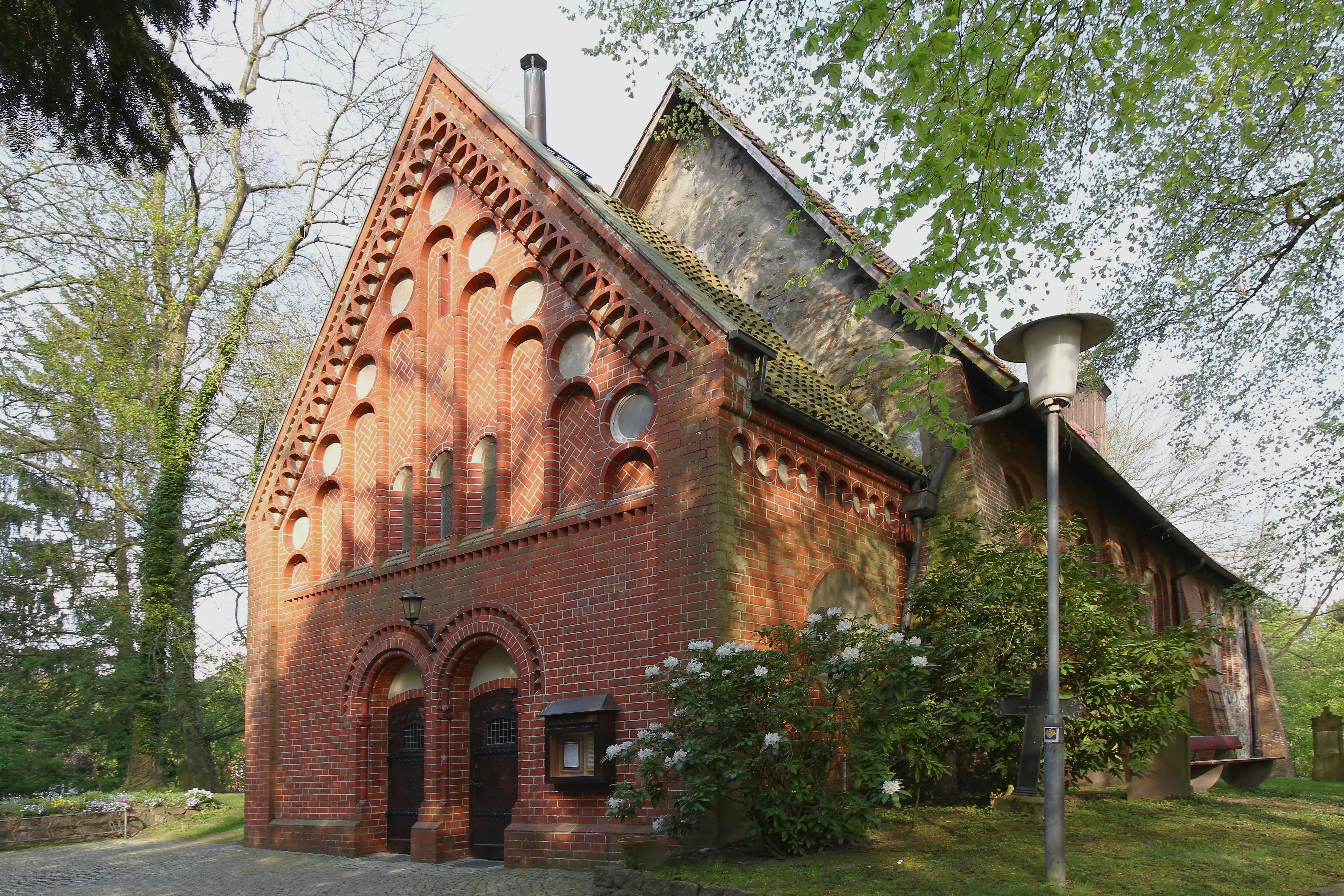 Church in Hamburg-Sinstorf